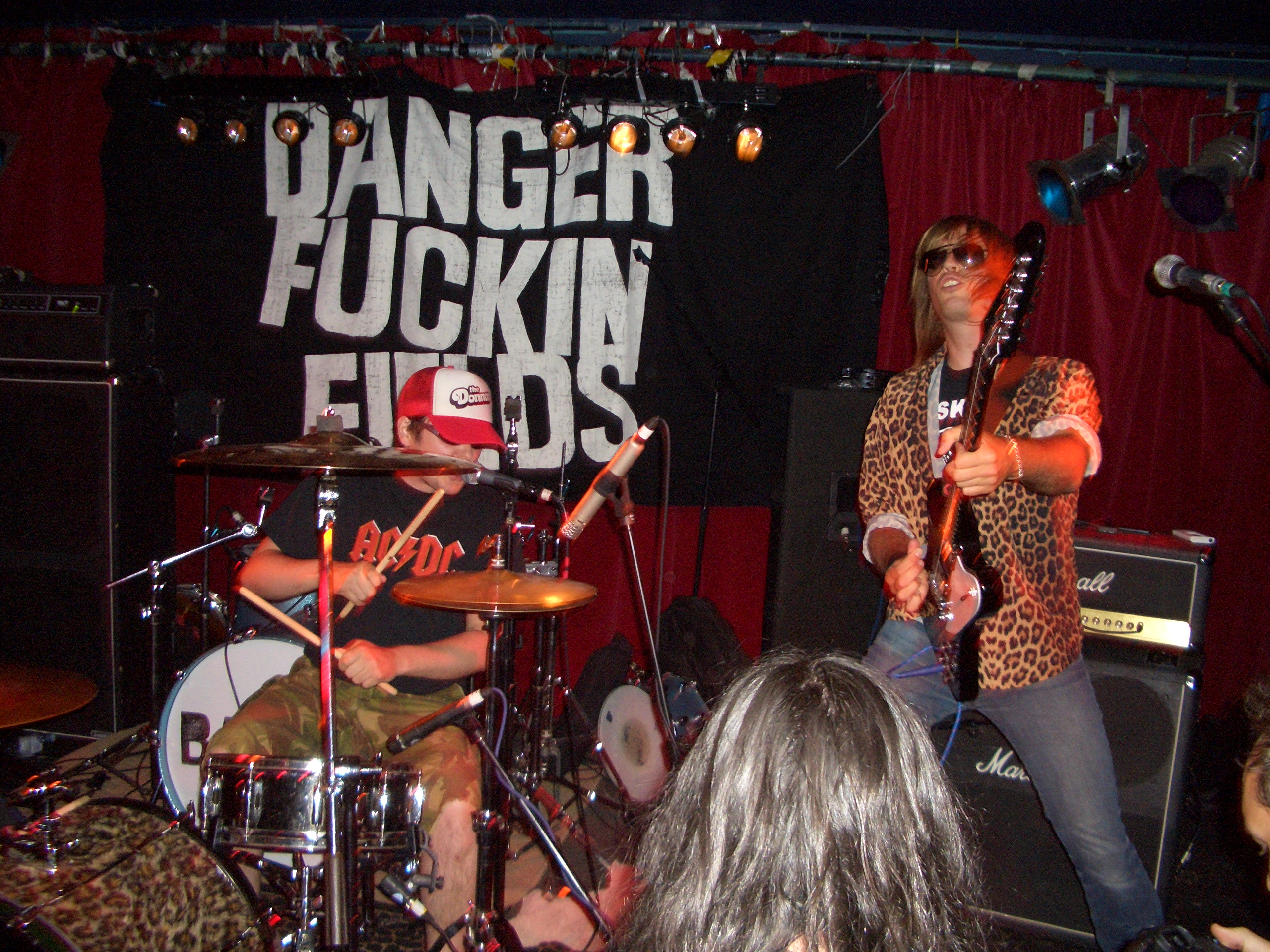 The Dangerfields in Monto Water Rats Theatre, London. Only 2 out of 3 members can be seen :(